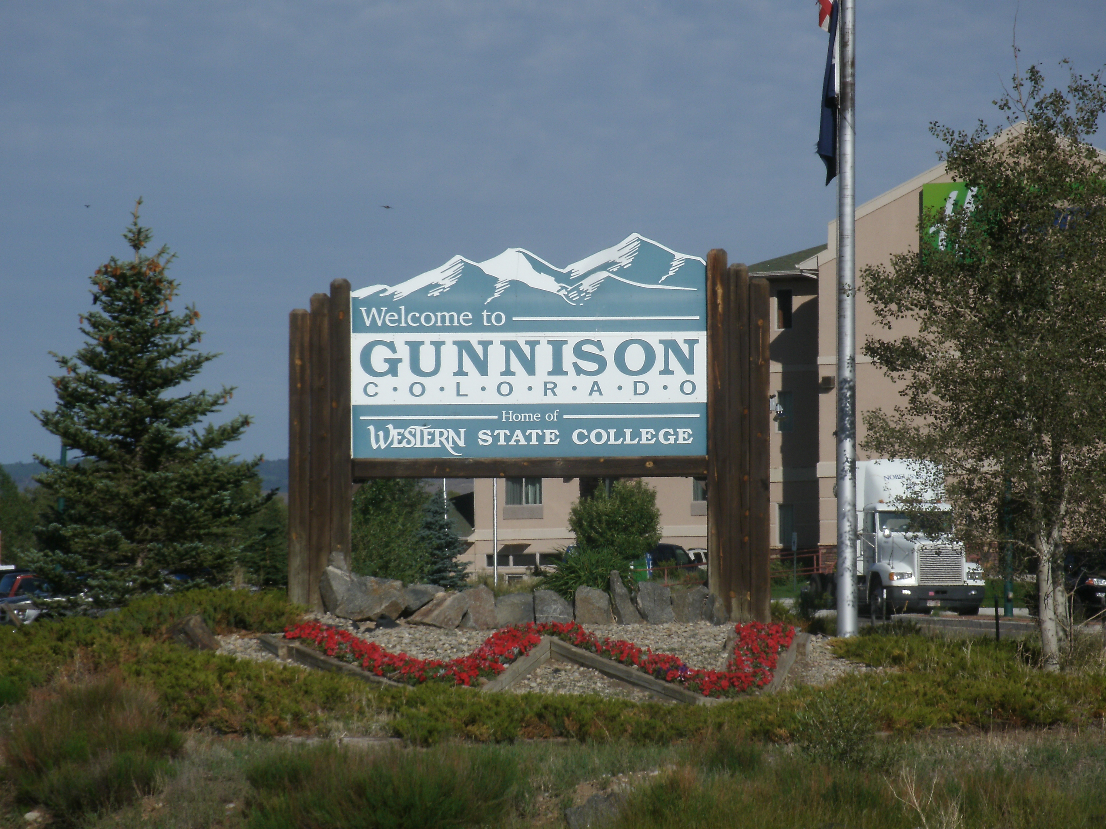 City limits sign as seen on U.S. Highway 50 traveling from the East into Gunnison, Colorado.